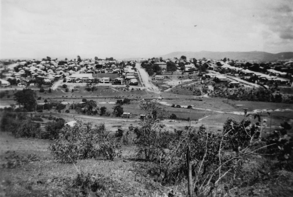 Looking towards Junction Park School, Greenslopes, Brisbane, ca. 1940. Steven's Hill, Greenslopes, looking towards Junction Park School, 1940s. (Description supplied with photograph.).